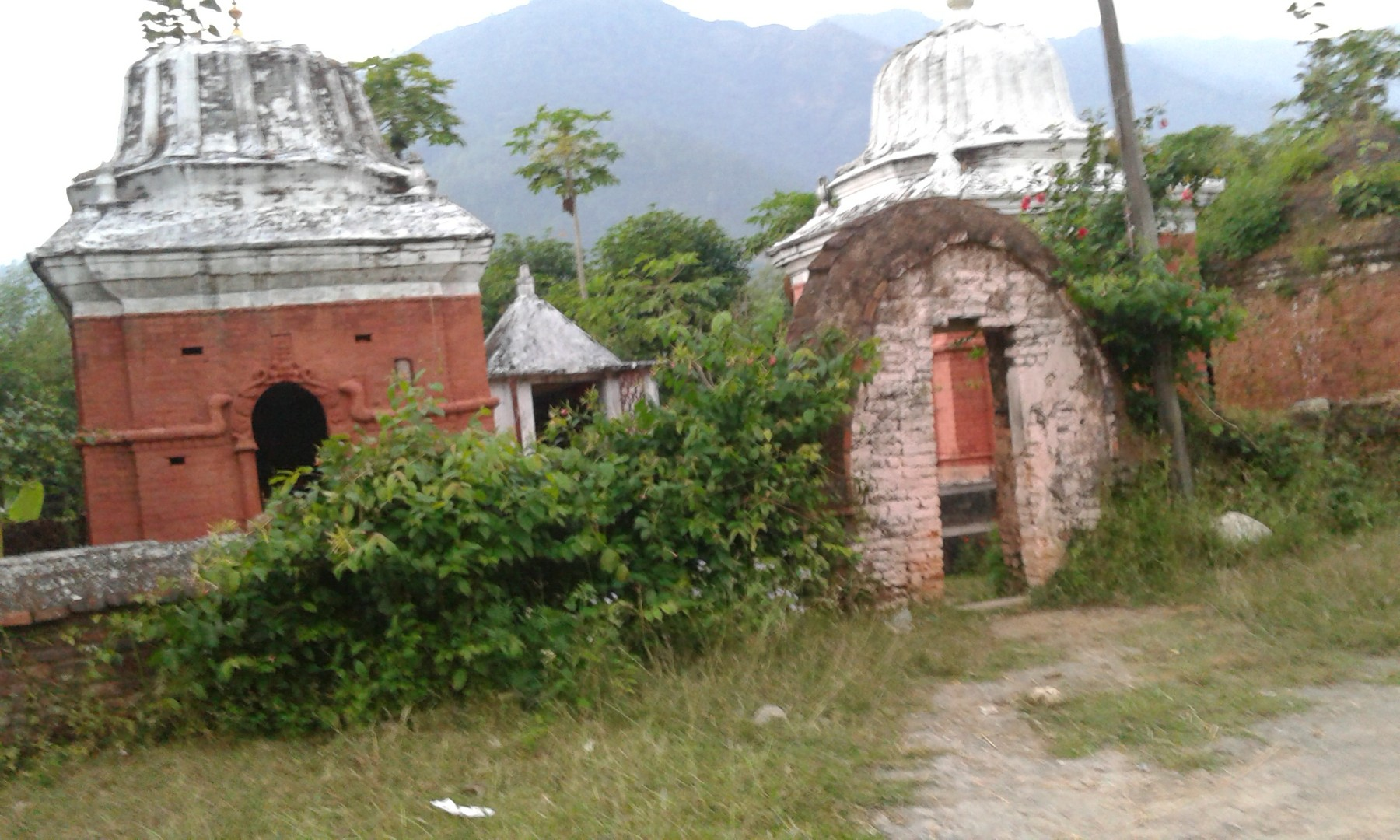 Shiwalayas of Kalegaun